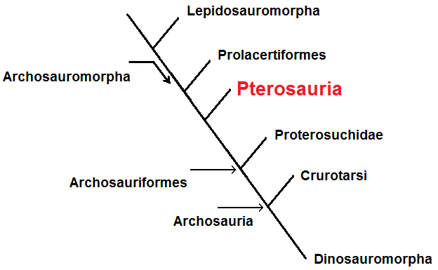 Pterosauria